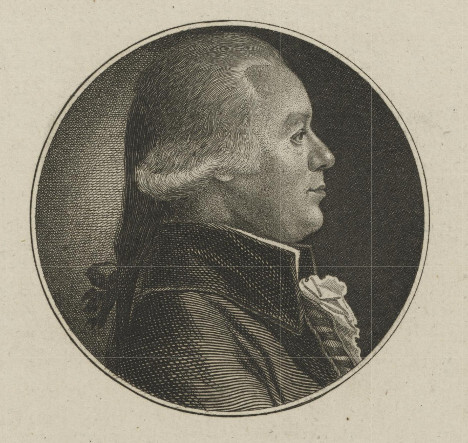 Detail of portrait of Johann Friedrich Degen by Christoph Wilhelm Bock (1792). Münster, LWL-Museum für Kunst und Kultur (Westfälisches Landesmuseum), Porträtarchiv Diepenbroick, Inv.-Nr. C-512883 PAD LWL-Landesmuseum für Kunst und Kulturgeschichte Münster; Bilddatei: lwl-c512883pad; Aufn.-Datum: 2012